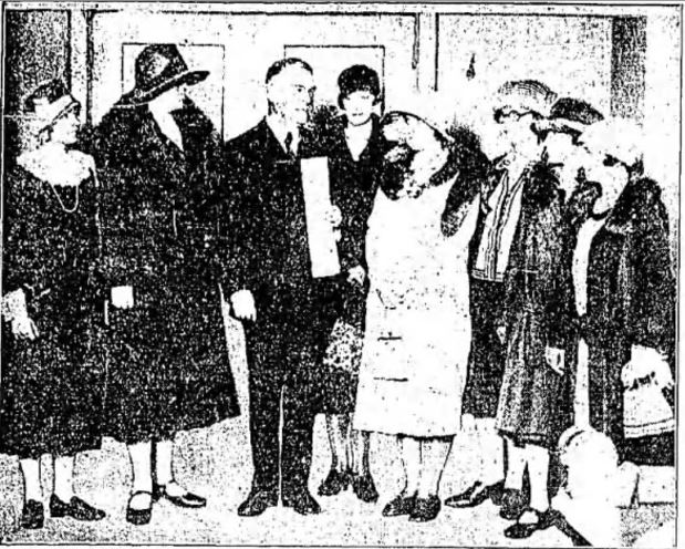 Original caption: "Prepared to wage legal warfare in the courts of California, the eight ladies pictured above with Presiding Justice William Langdon of San Francisco were admitted to the bar several days ago. Left to right, they are Bertha Ast, Harriet Fyfe, Mrs. Edith C. Wilson, Catherine Berry, Marian Harron, Rosina Bernhard and M. Inez"